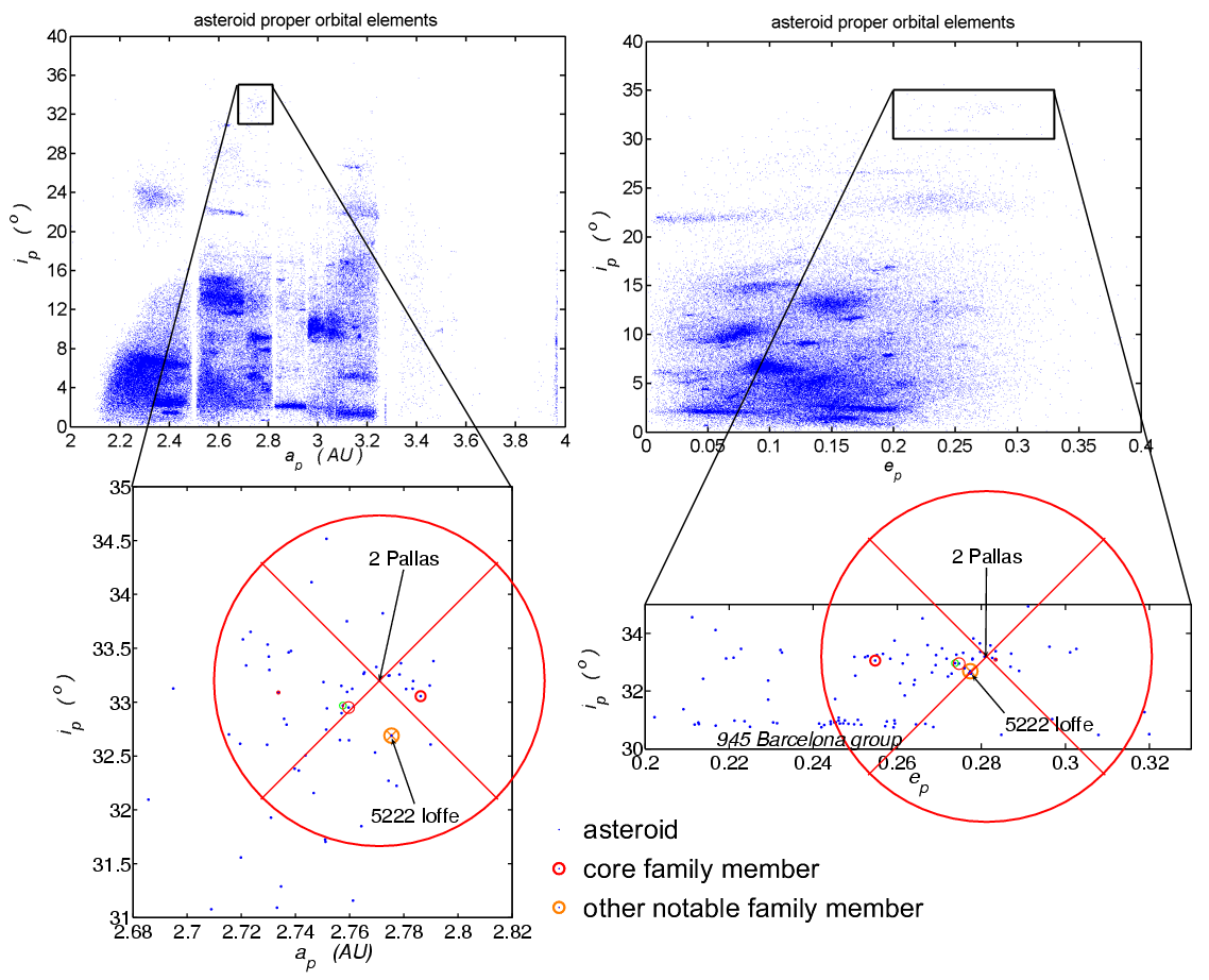 Diagrams showing the location and characteristics of the Pallas family of asteroids. Where circles are plotted, their diameter is proportional to the mean diameter of the asteroid.